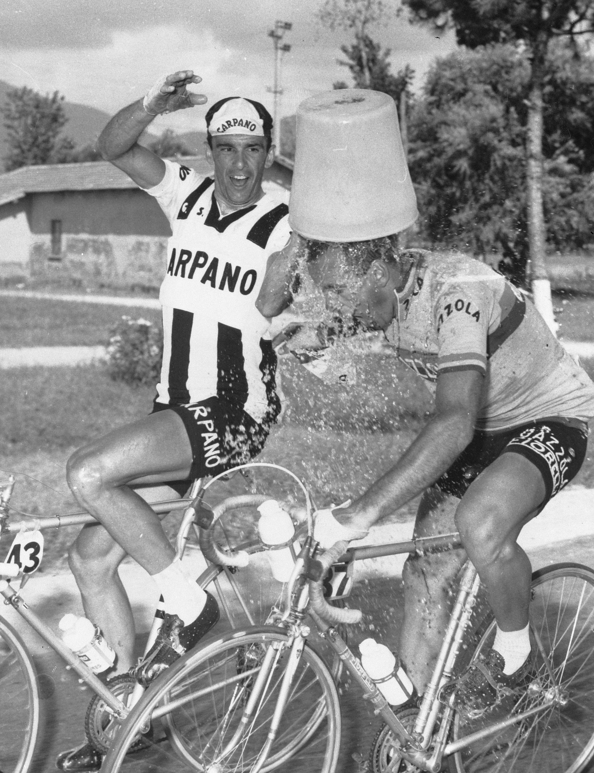 A rider pouring water on his head.